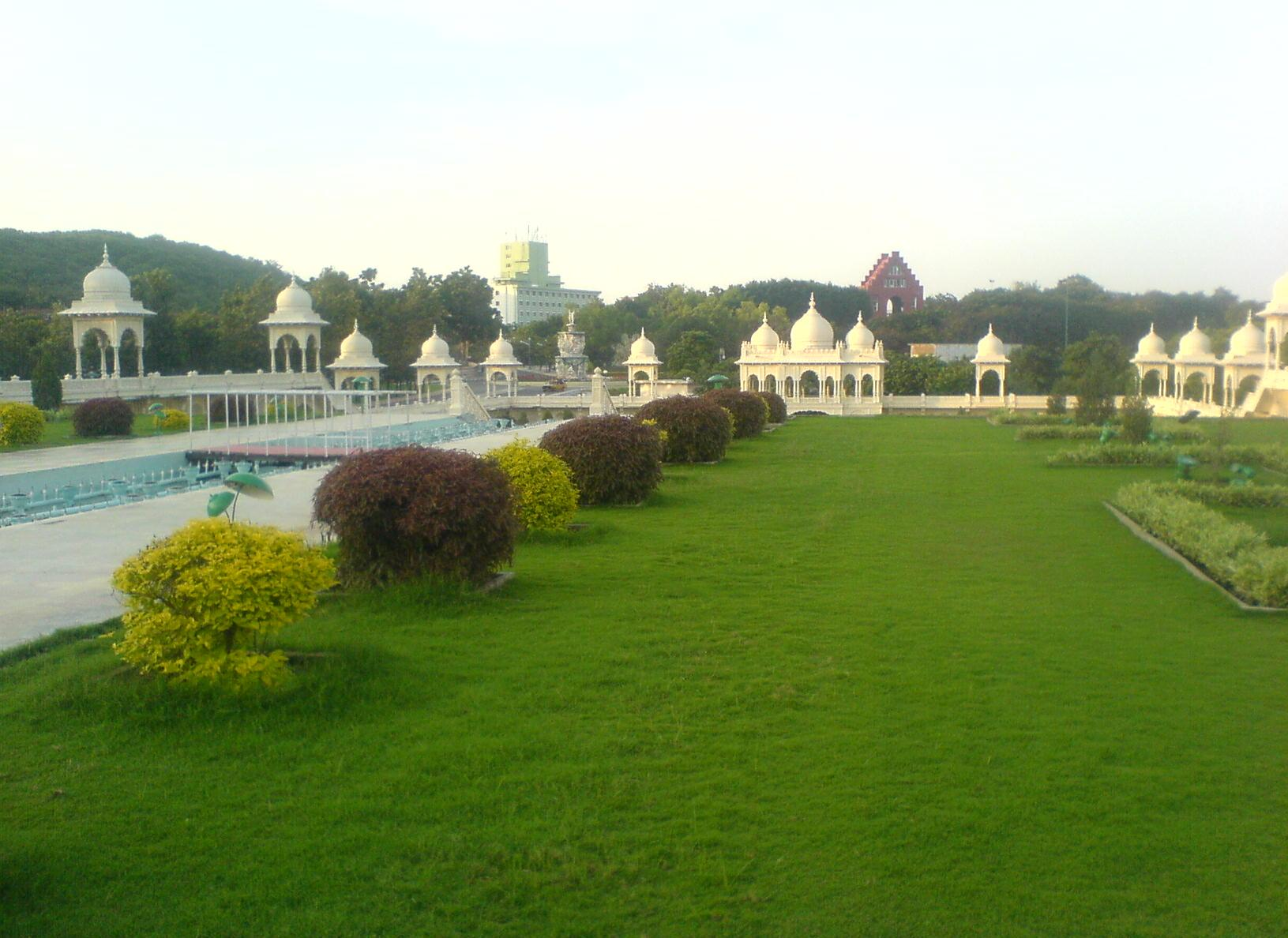 I have taken this photo during my recent trip to Ramoji film city on Oct 2nd 2007. This photo has been taken in the evening standing at the entrance.